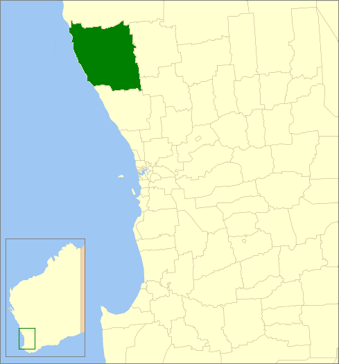 Description=Location of the Local Government Area in Western Australia